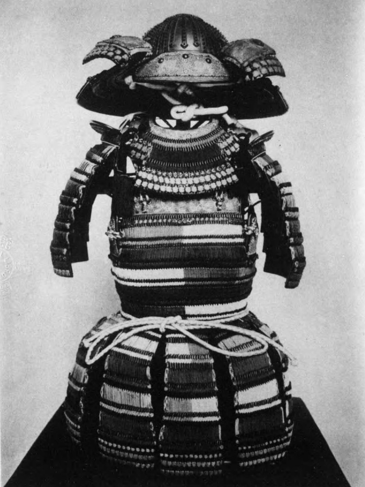 The front of Iro-iro Odoshi Haramaki, Isonokami Shrine.